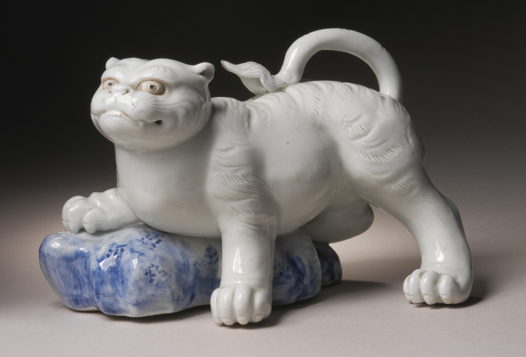 Japan, 19th century Sculpture Hirado ware, porcelain with underglaze blue Gift of Allan and Maxine Kurtzman (M.2002.147.9) Japanese Art Currently on public view: Pavilion for Japanese Art, floor 3